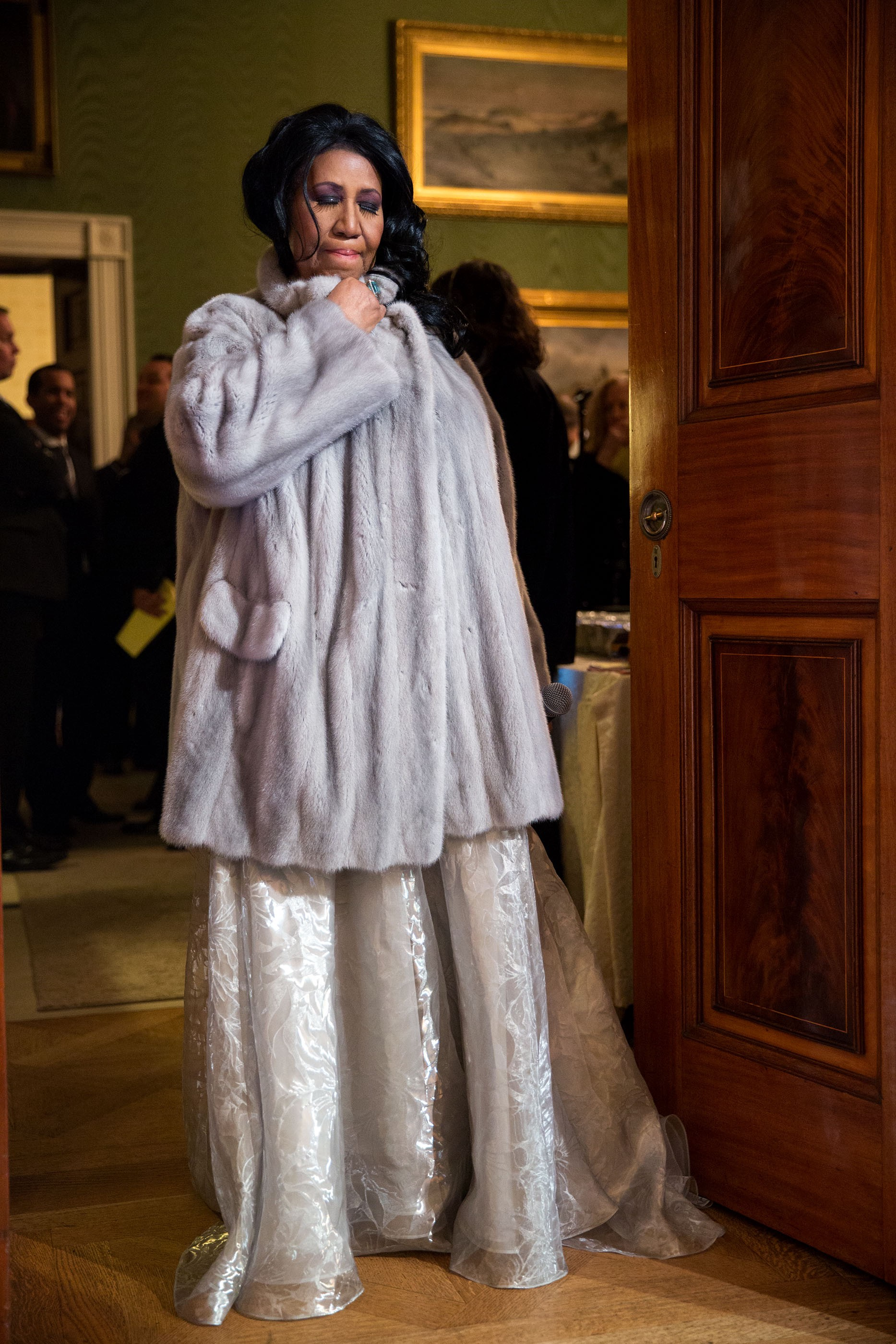 Verbatim from the source: “The Queen of Soul — Aretha Franklin — was waiting for her cue during ‘The Gospel Tradition: In Performance at the White House’ when I noticed her close her eyes in silence for a few seconds while standing in the doorway between the Green Room and East Room before she was ready to begin her performance.” (Official White House Photo by Pete Souza)